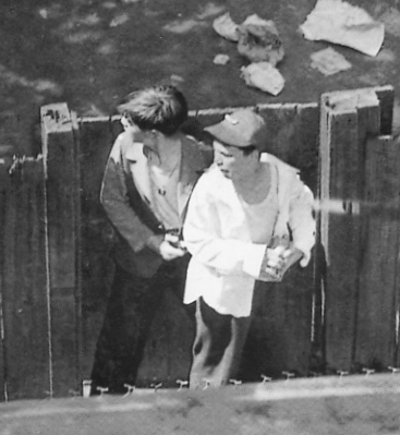 "Boy Gunman and Hostage", photograph of 15-year-old Edward Bancroft holding another 15-year-old boy, William Ronan, hostage with a pistol during a stand-off with police. This photograph won the 1948 Pulitzer Prize for Photography.